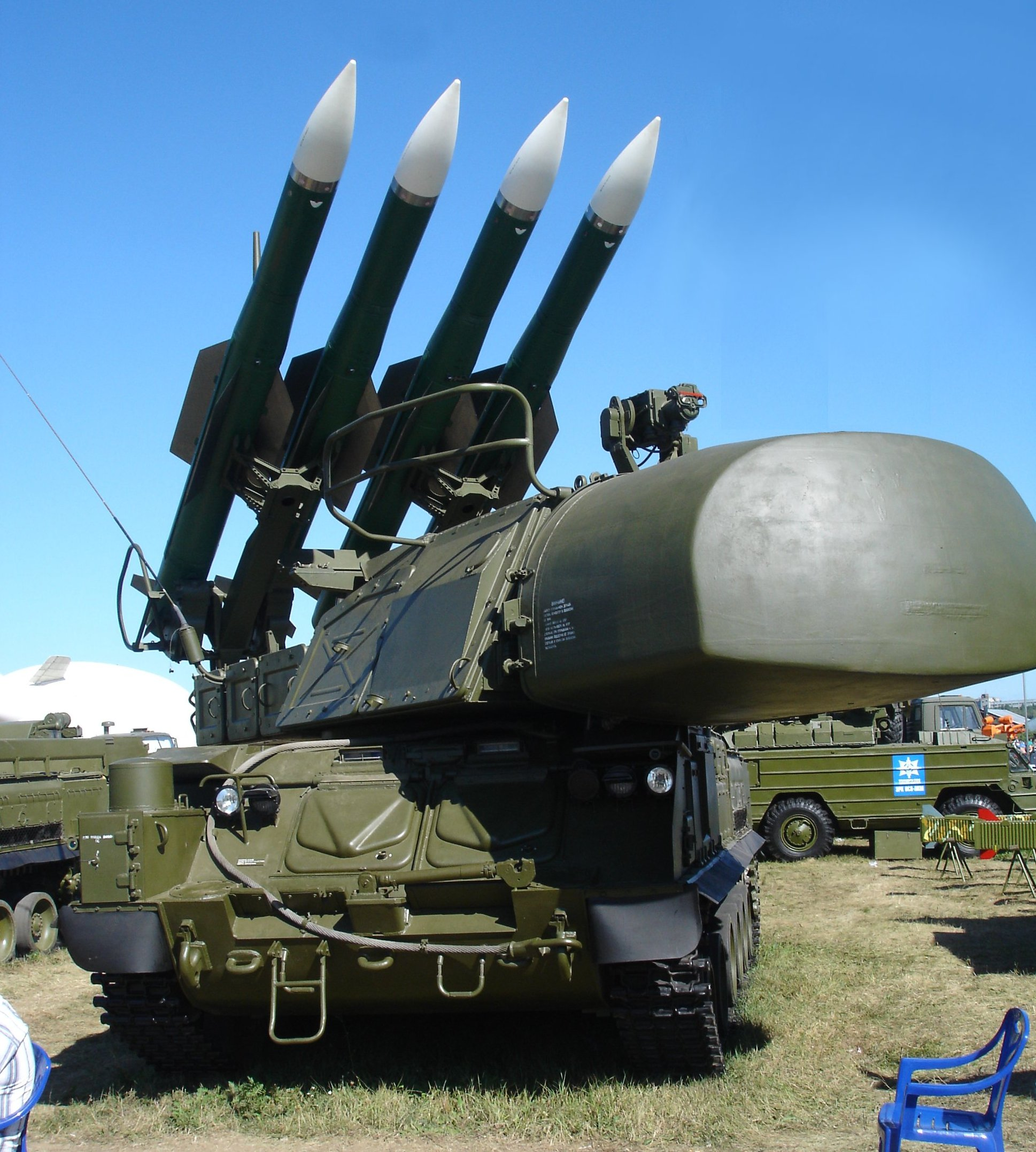 Buk-M1-2 SAM system. 9A310M1-2 self-propelled launcher. MAKS, Zhukovskiy, Russia, 2005.